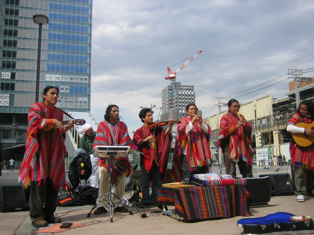 A band from Peru plaing known melody from zarzuela "El cóndor pasa" (Tokyo, Japan). Orginal text